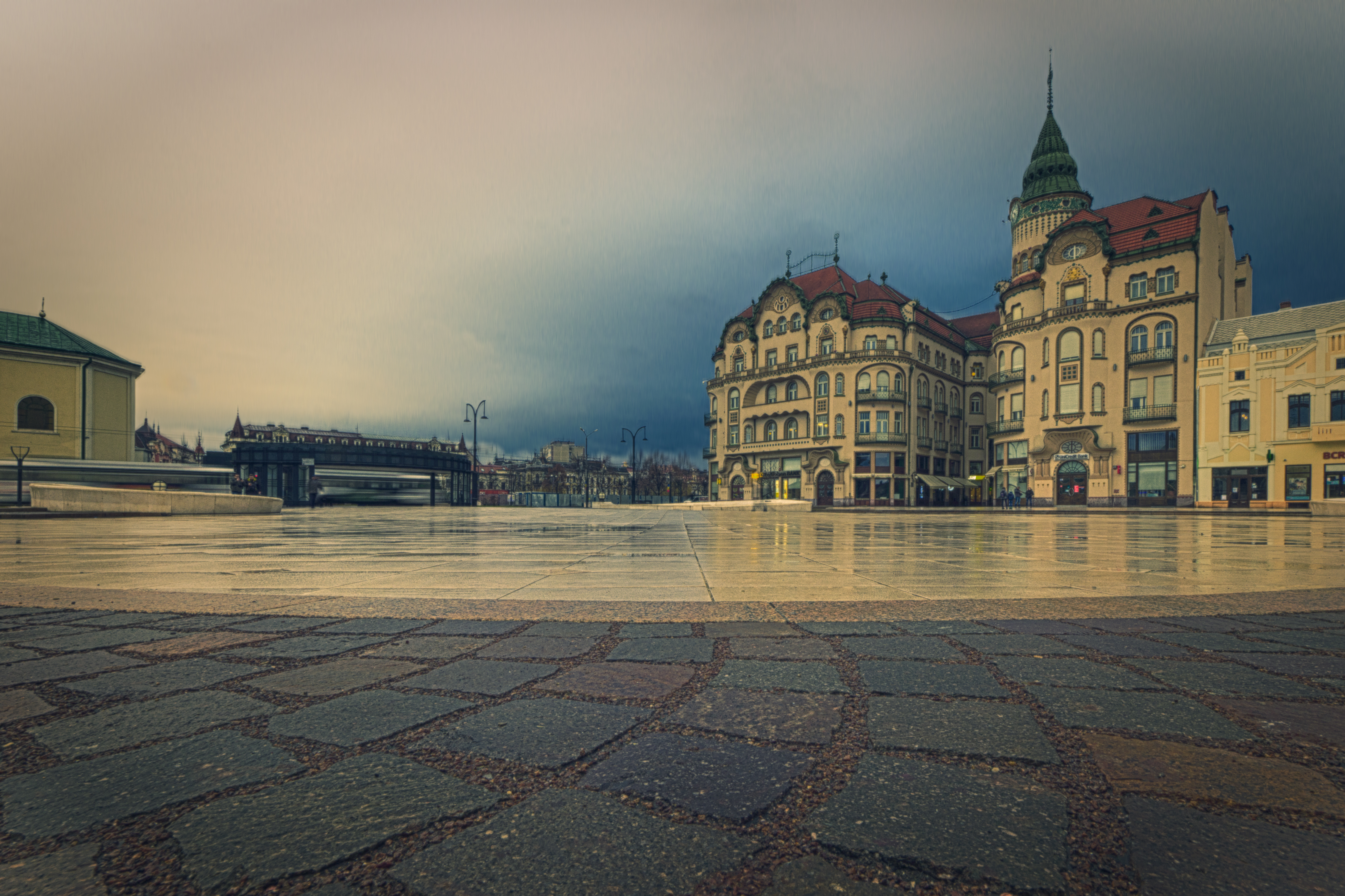 Black Eagle (Vulturul Negru) Palace, Oradea, Romania